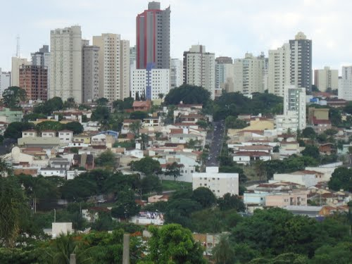 Central Town of Uberlandia